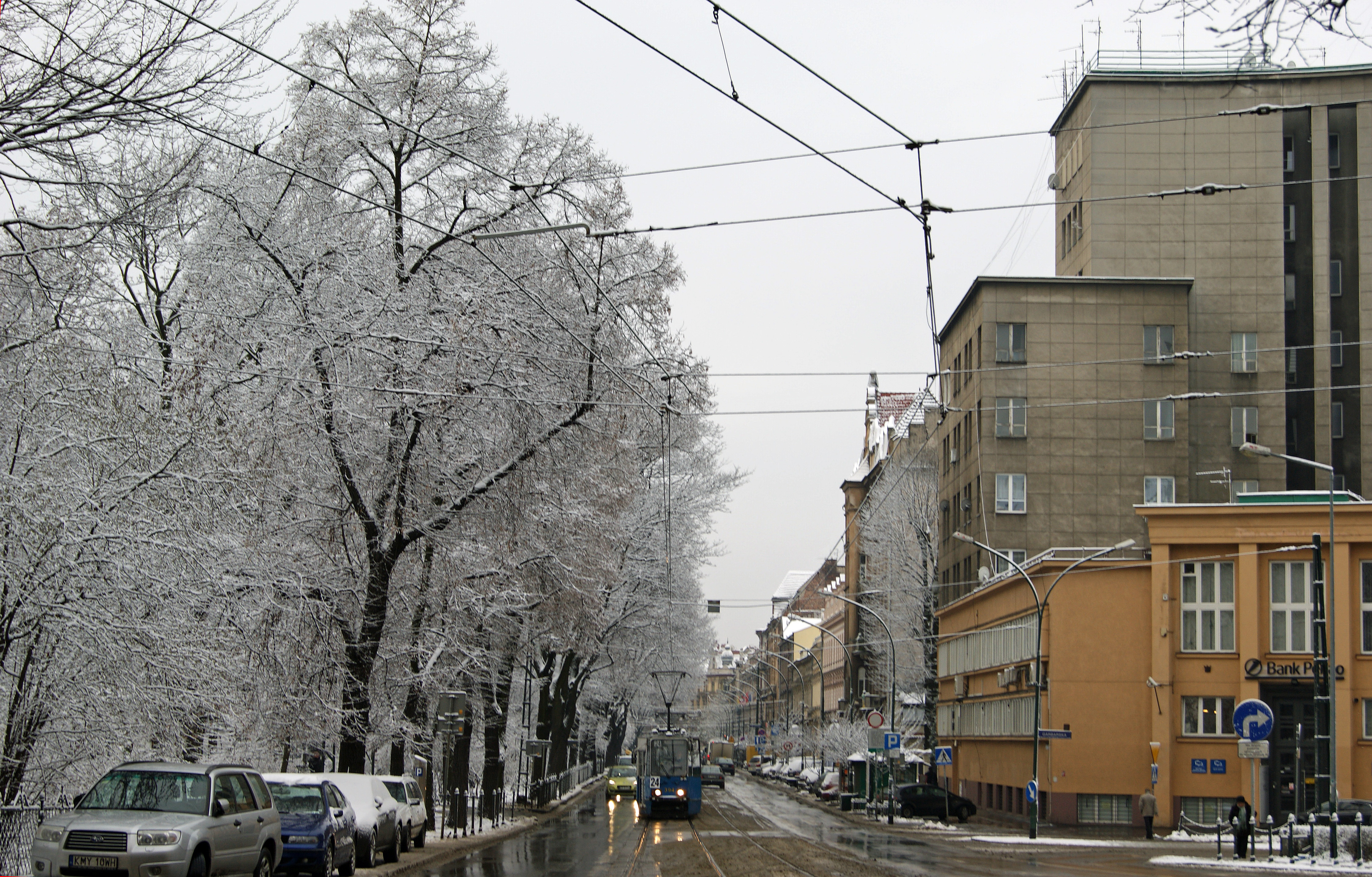 Dunajewskiego street, Krakow, Poland